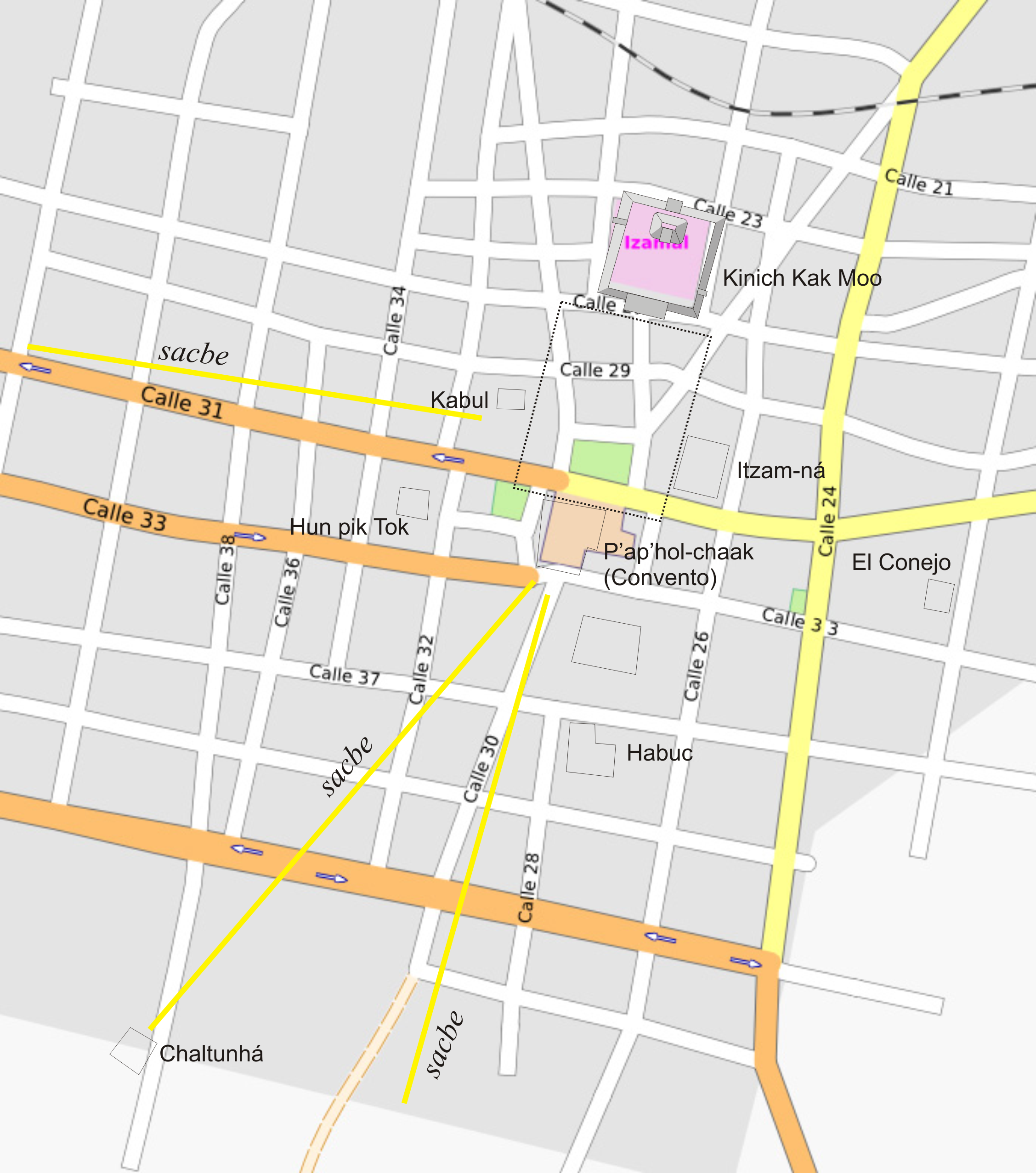 Schematic plan of Izamal, Yucatan, Mexico: central area with prehispanic ruins